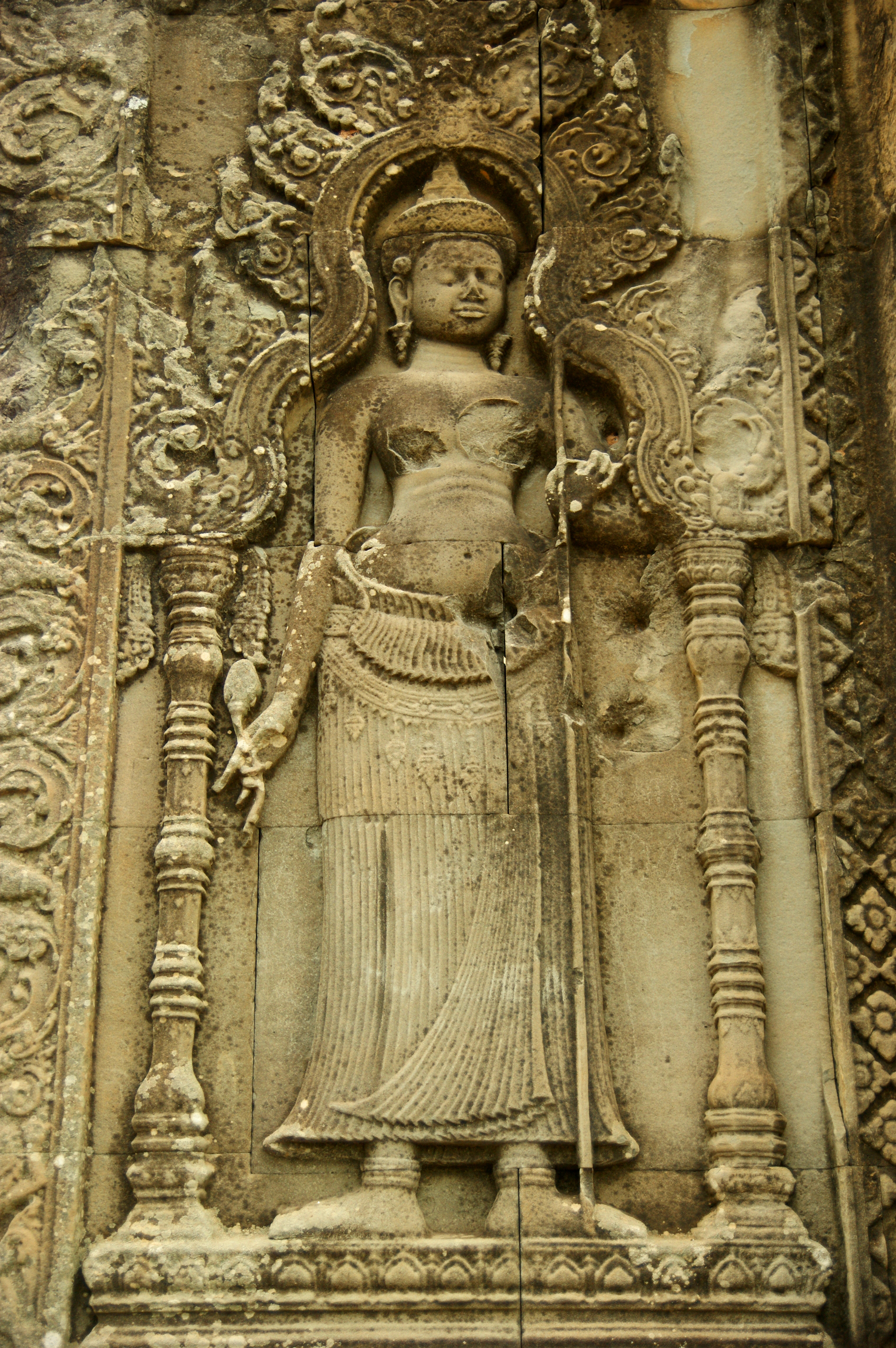 A carved relief from the temple of Phnom Bakheng at Angkor, Cambodia. Phnom Bakheng was a Hindu temple that was built at the end of the 9th century, during the reign of King Yasovarman